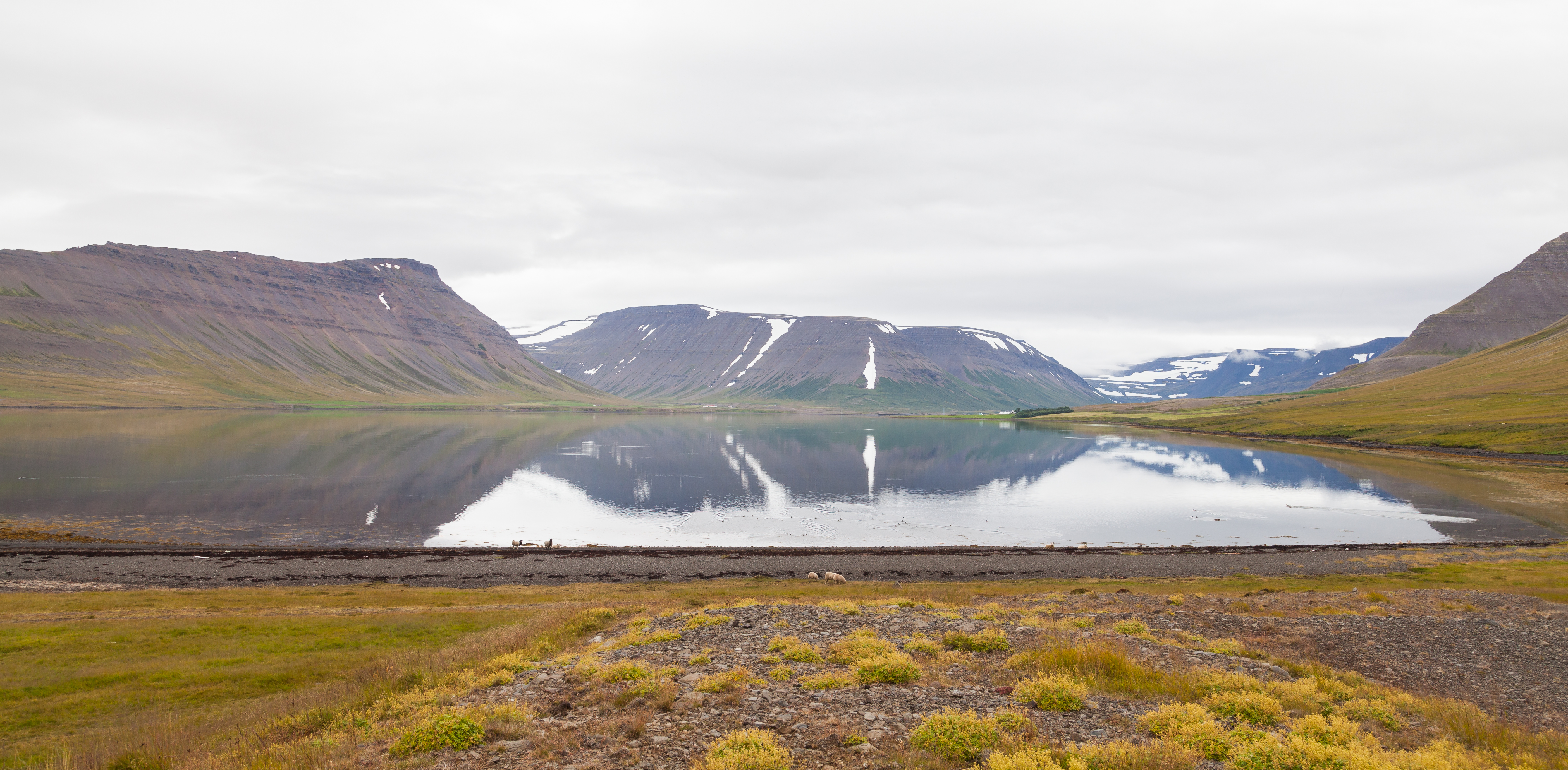 Dýrafjörður, Vestfirðir, Iceland